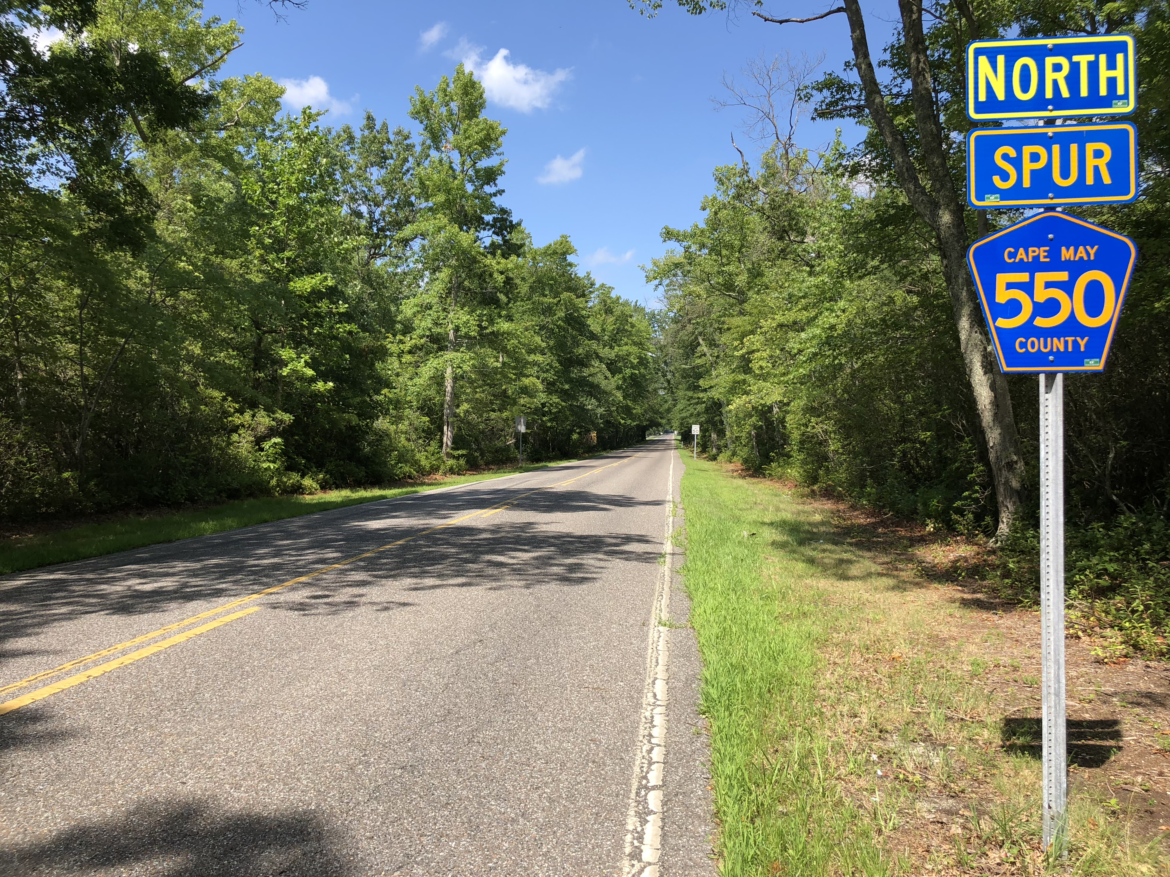 View north along Cape May County Route 550 Spur (Hands Mill Road) just south of Sunset Road in Dennis Township, Cape May County, New Jersey